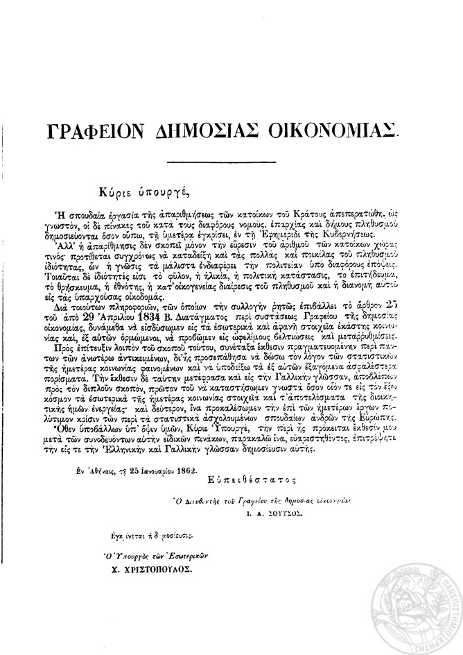 Letter by the Office of Public Finance to the Minister of Interior informing of the successful completion of the 1861 Greece cencus